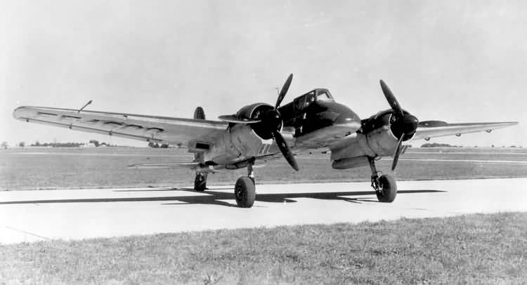 A captured German Henschel Hs 129B (Wk.Nr. 0385) at Freeman Army Airfield, Indiana, in 1946. It was allotted for storage at Davis-Monthan AFB, Arizona (USA) but had to be force-landed at Gallatin, Tennessee, on 24 July 1946 while being ferried to Davis-Monthan. The aircraft ran out of fuel due to suspected tank leakage and was slightly damaged during the subsequent forced landing. It was taken to No. 803 Special Depot (Orchard Place) on 5 August 1946. When the storage depot was required for other purposed during the Korean War, FE-4600 was put up for disposal as scrap. Only the nose section was saved from a scrap yard.